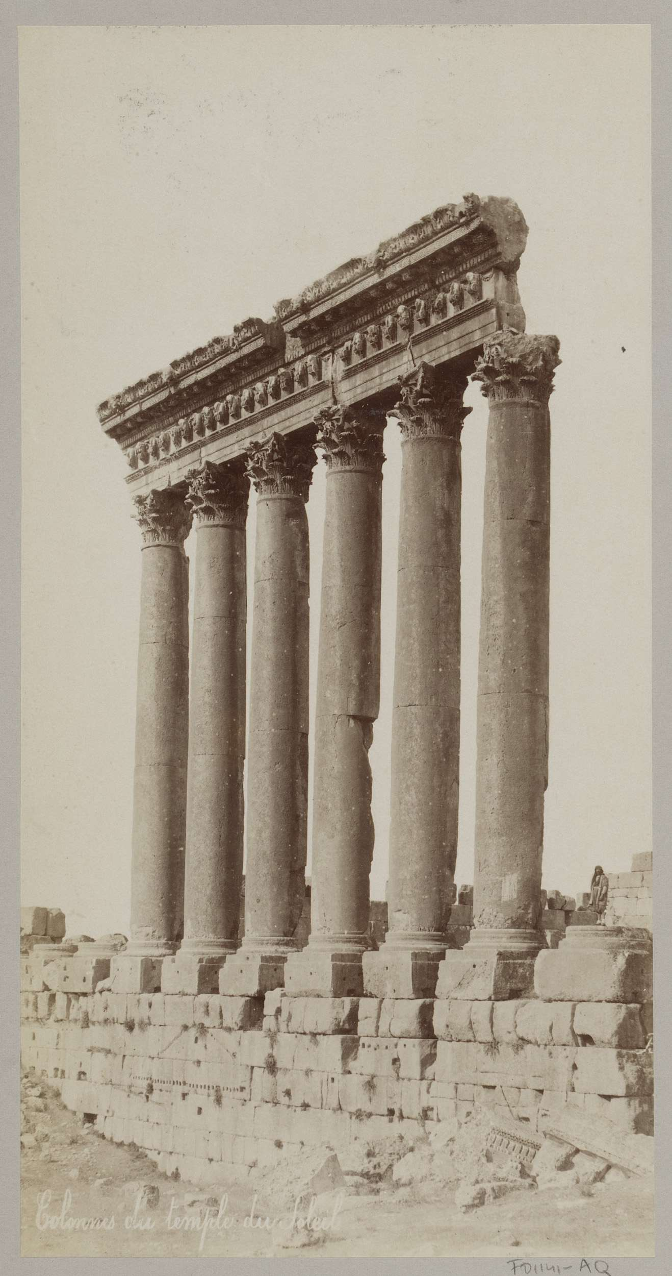 Pillars of the Temple of Jupiter in Baalbek